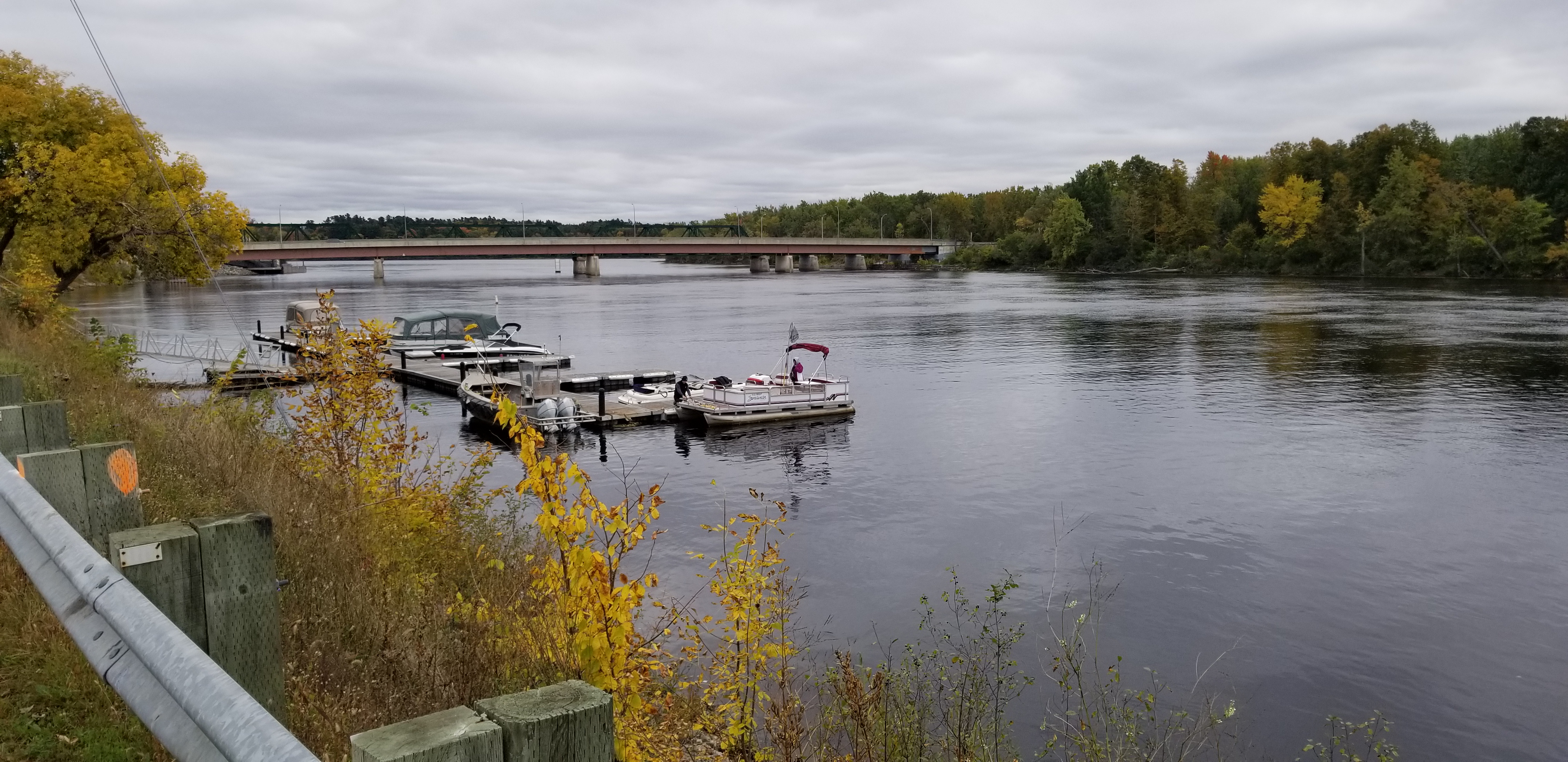 View of the Lady Aberdeen Bridge on the Gatineau River from the left bank (Jacques-Cartier Street) in Gatineau on Oct. 7, 2018.